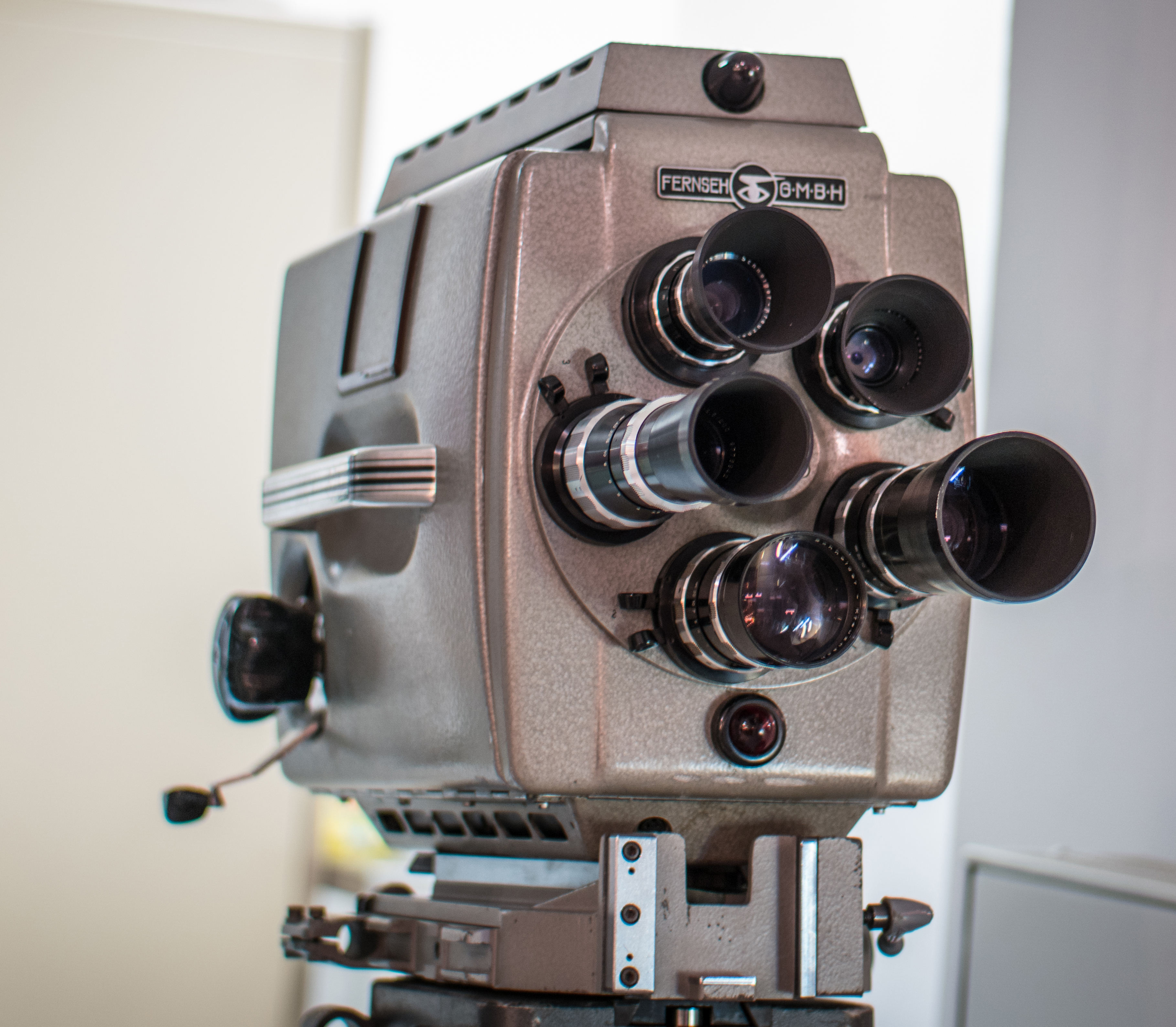 Fernseh GmbH (FESE) television studio camera KOD 3 at the electrum museum in Hamburg, Germany